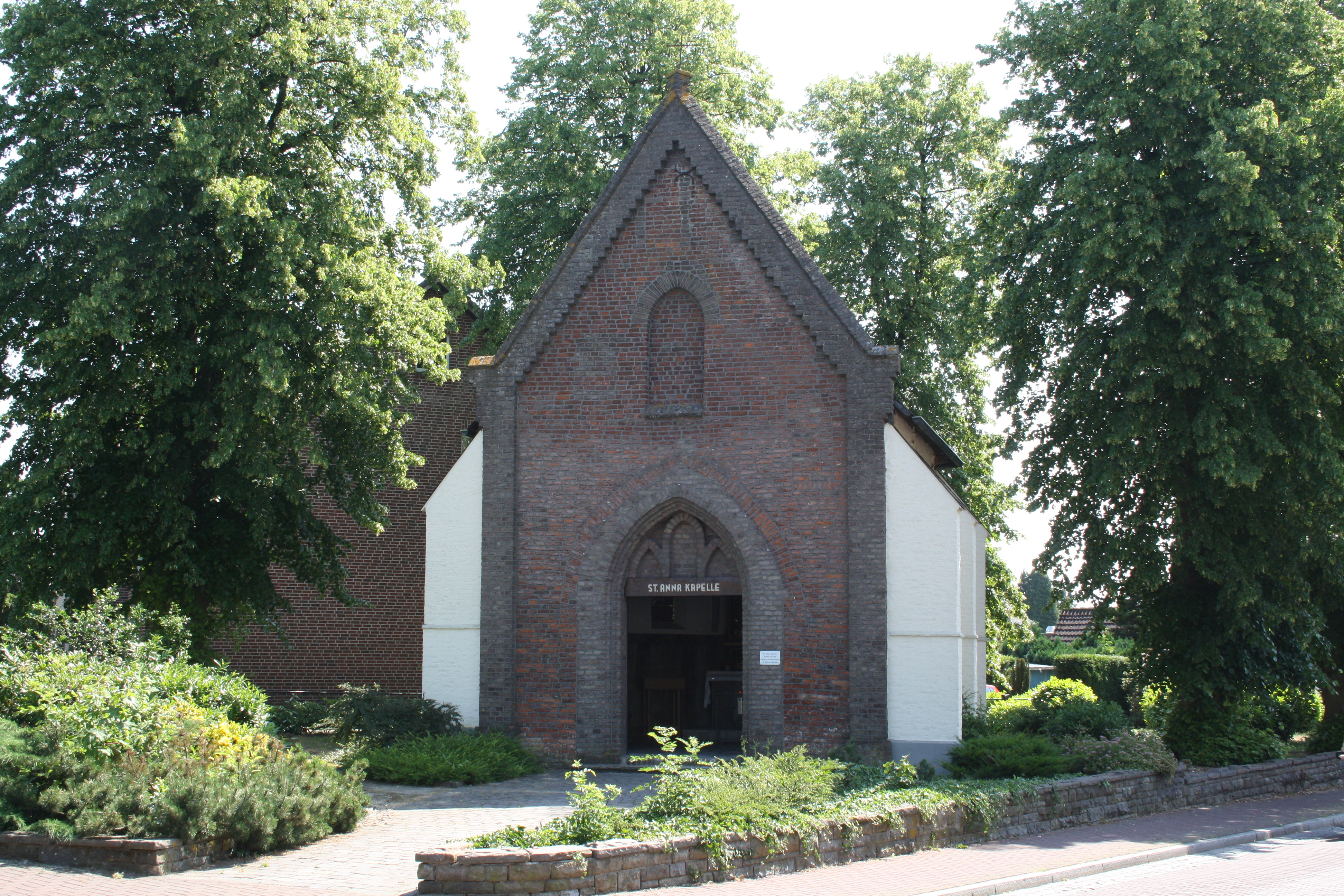 St. Anna's chapel in Kleve-Materborn, North Rhine-Westphalia, Germany